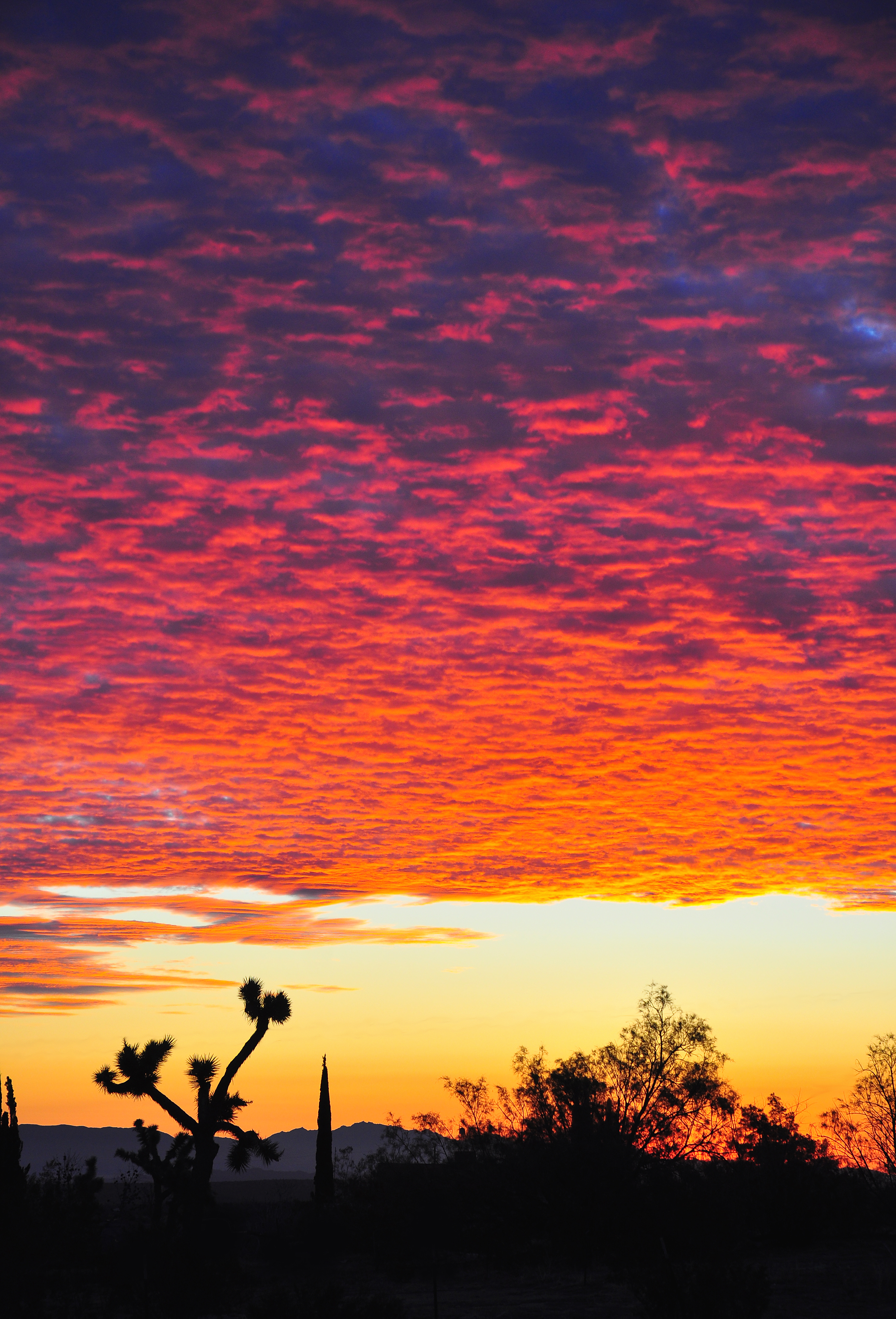 The California desert experiencing Civil Dawn in March 2020